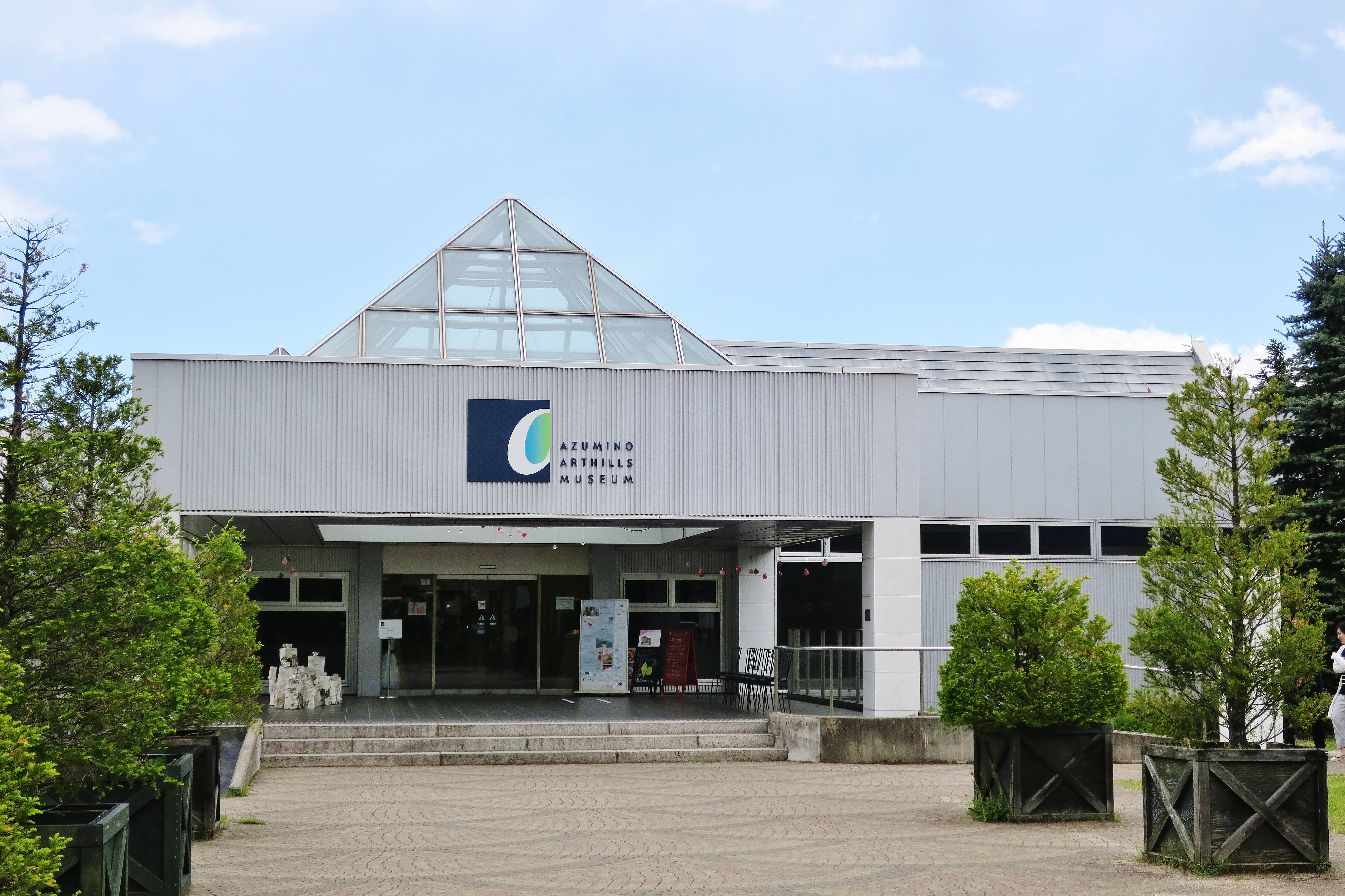 Azumino Arthills Museum.